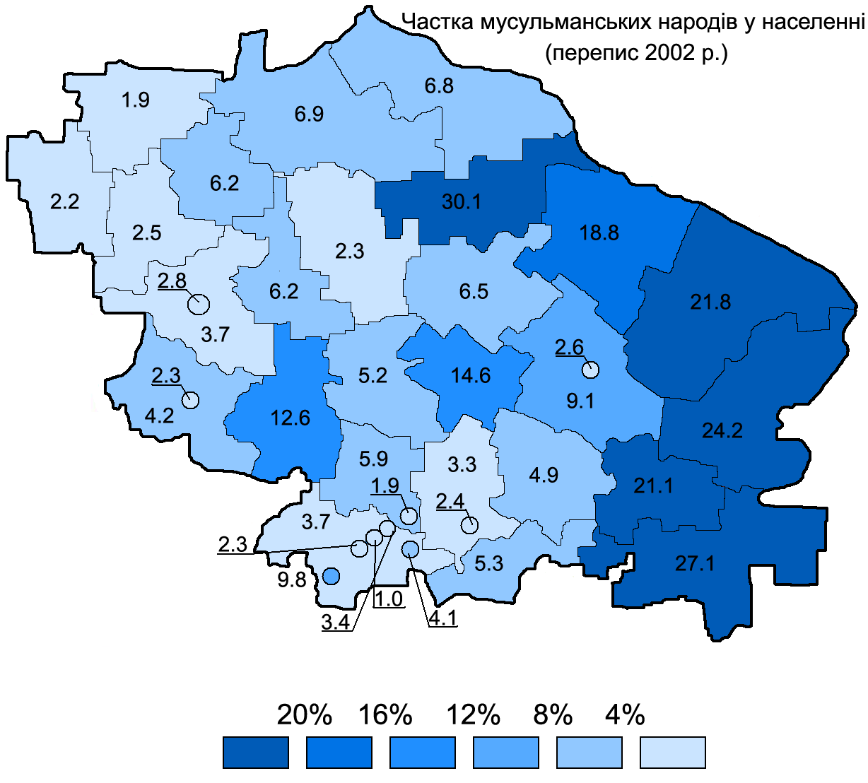 Muslim people in Stavropol krai according to 2002 Census